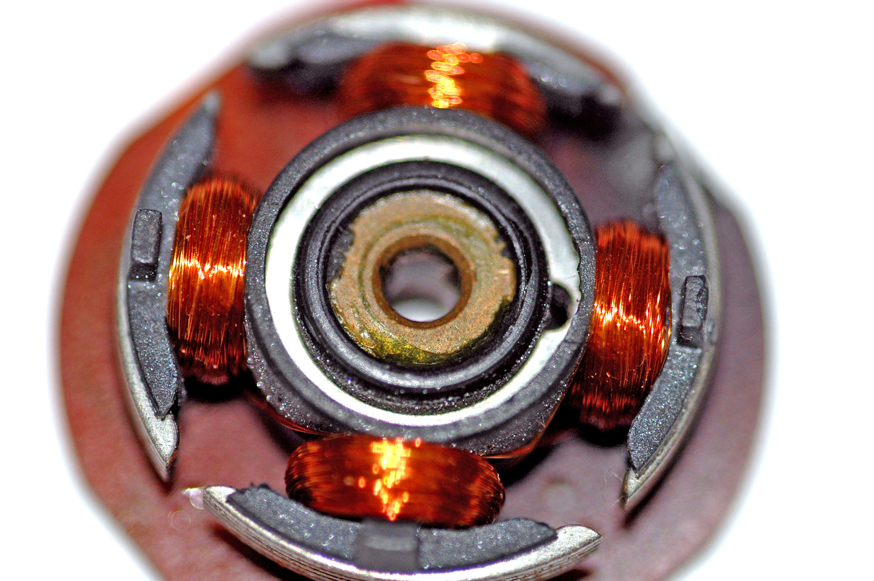 Vacuum tubes, resistors, diodes, a Tube Screamer guitar pedal, transistors, terminal strips and more!